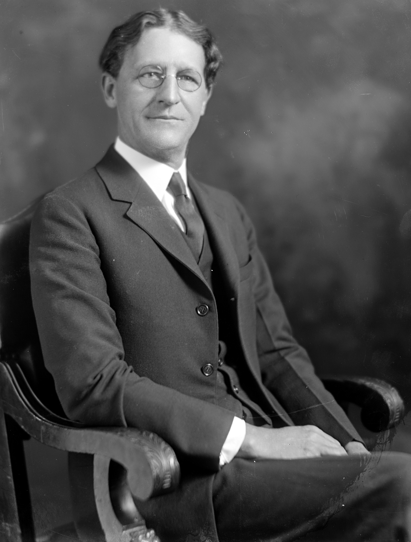 Samuel Rutherford, US Representative from Georgia